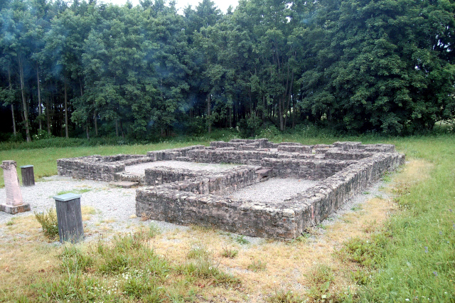 Germany / Town of Walldürn, Roman bath